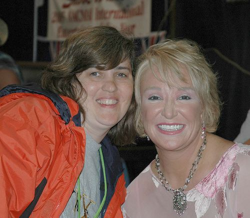 Tanya Tucker (right) at the 2005 CMA Festival with niece Donelle.